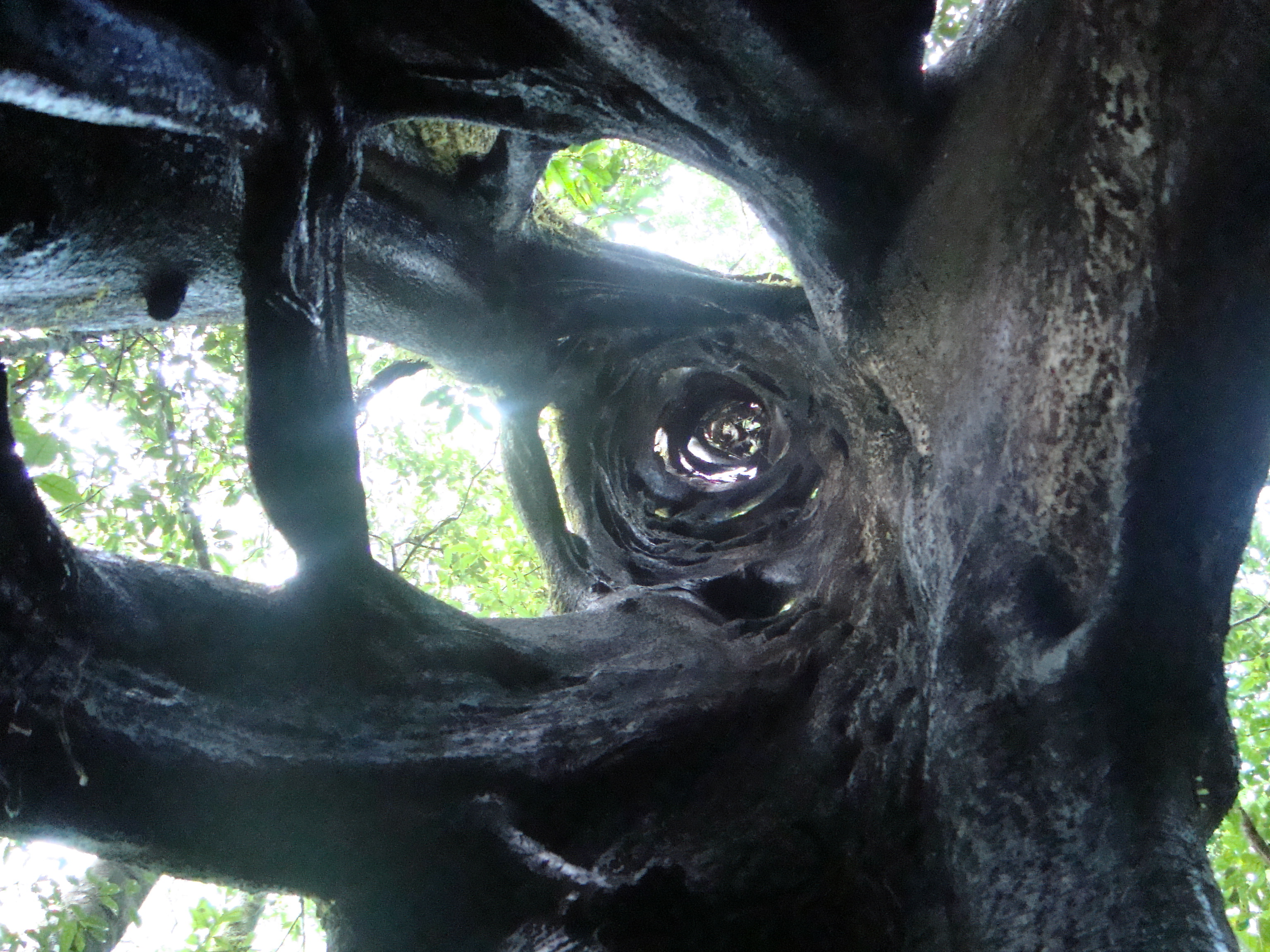 Strangler tree in the lacandon jungle (near the Lacanja community)